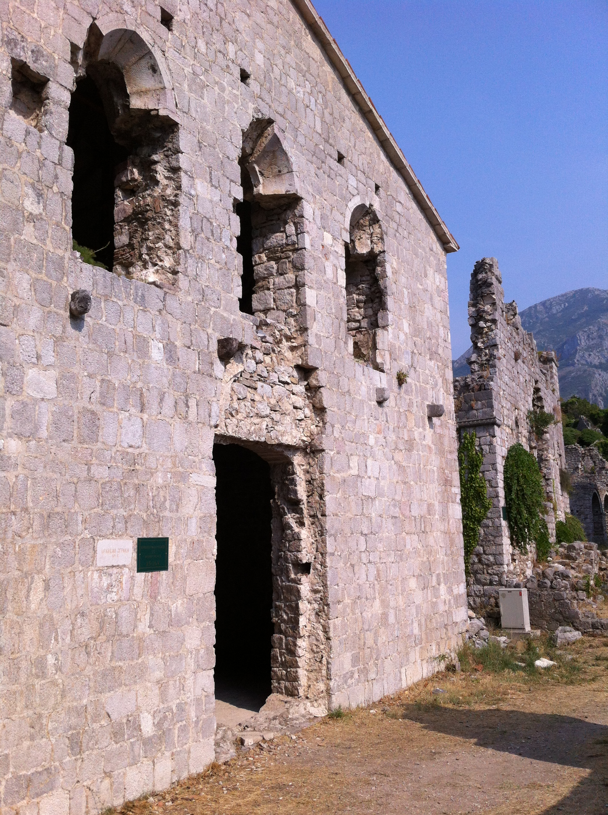 Bishop palace in Old Bar